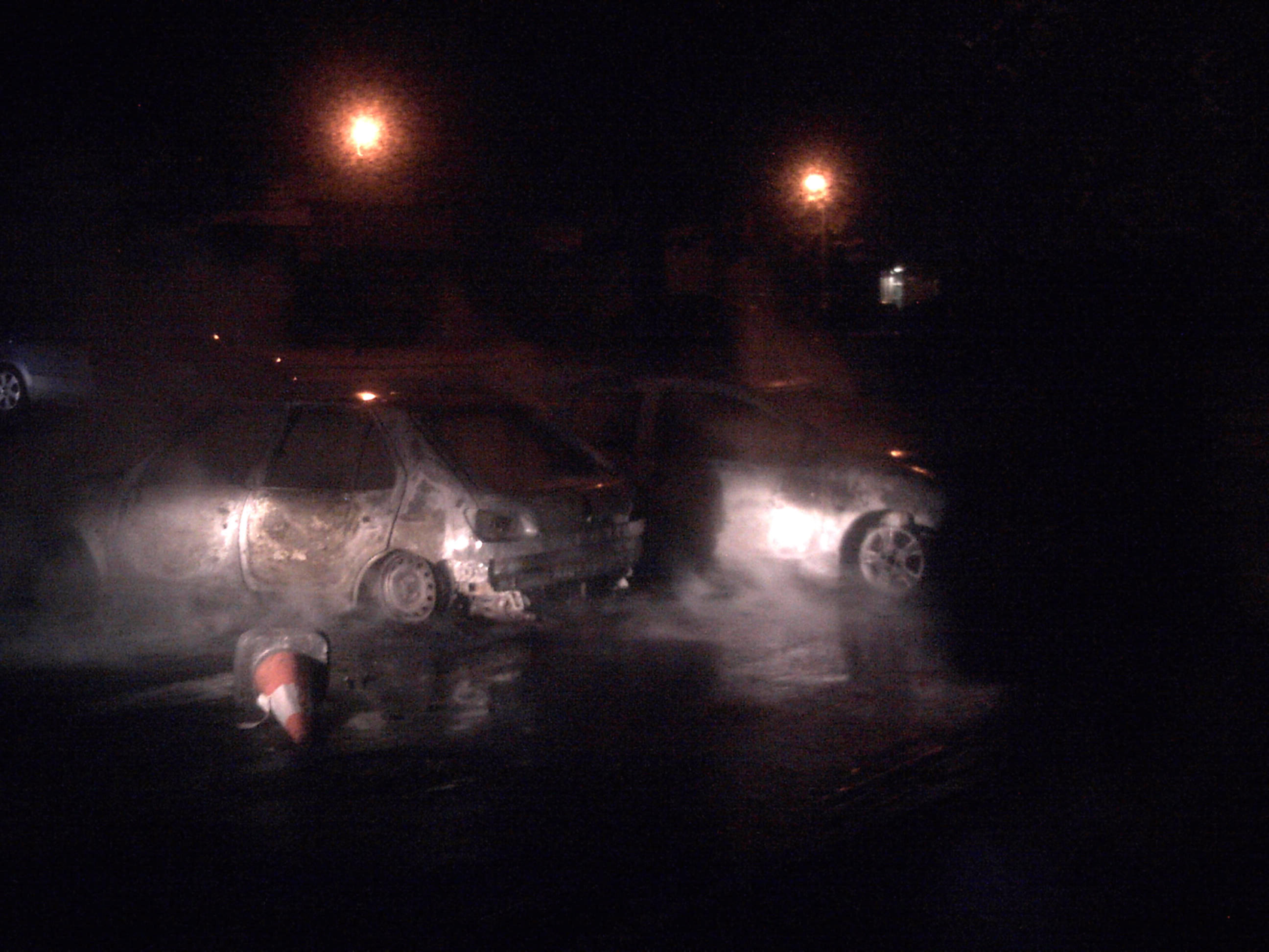 2 Burnt out cars on Myrtle STreet, Liverpool